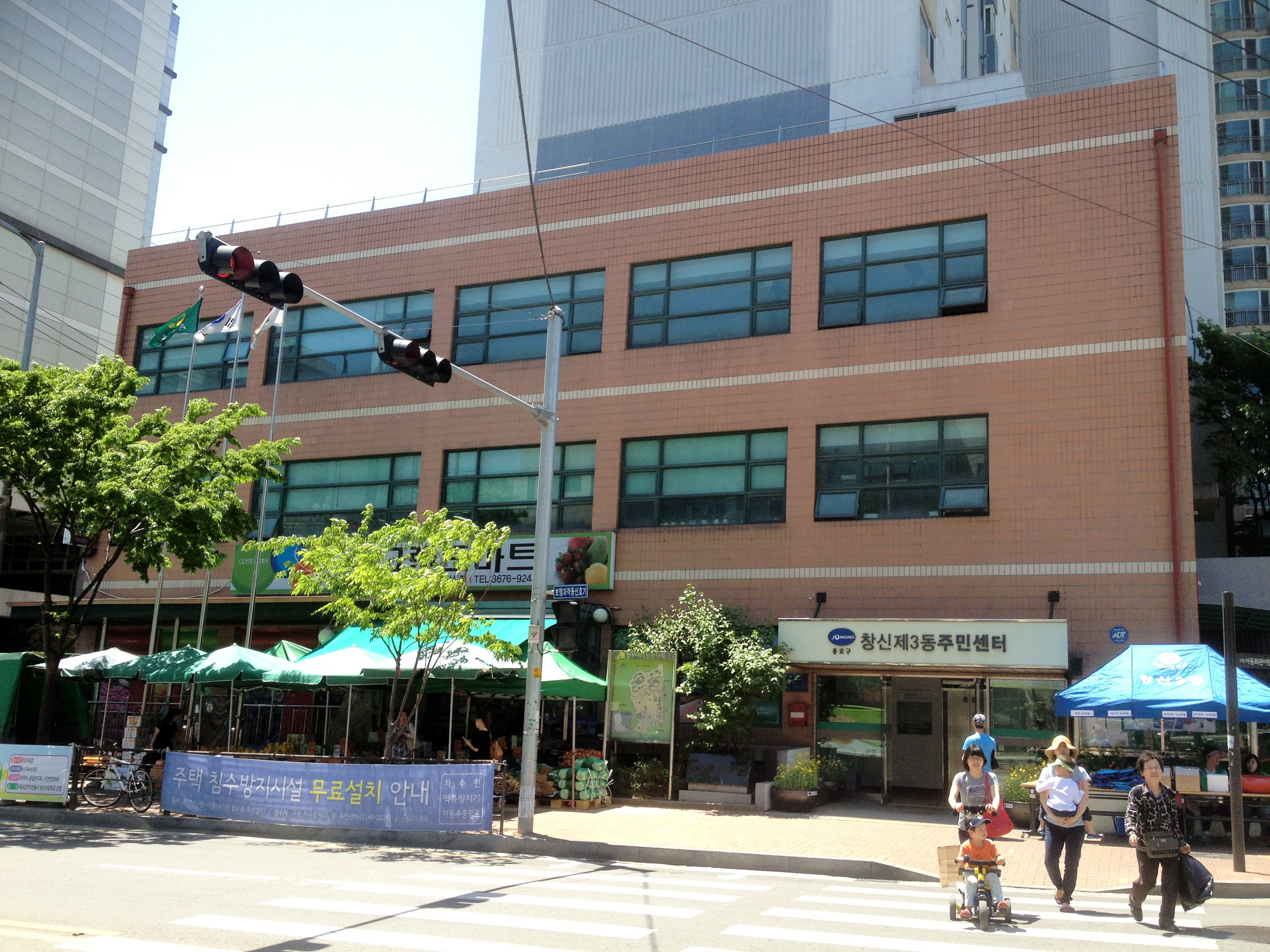 Changsin 3-dong Comunity Service Center(Jongno-gu)